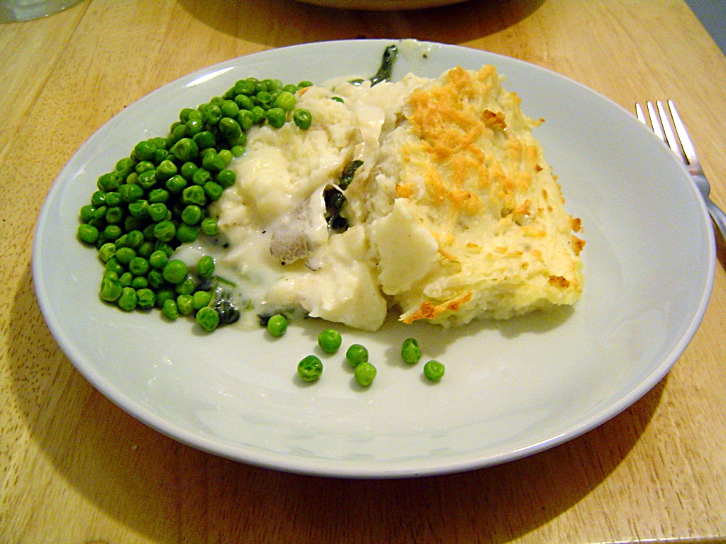 Fish Pie, with peas Home made with un-bleached smoked haddock, orange ruffy. Sauce: cornflower, butter and goats milk. Mashed potatoes with a dash of goat's cream. Served with peas.